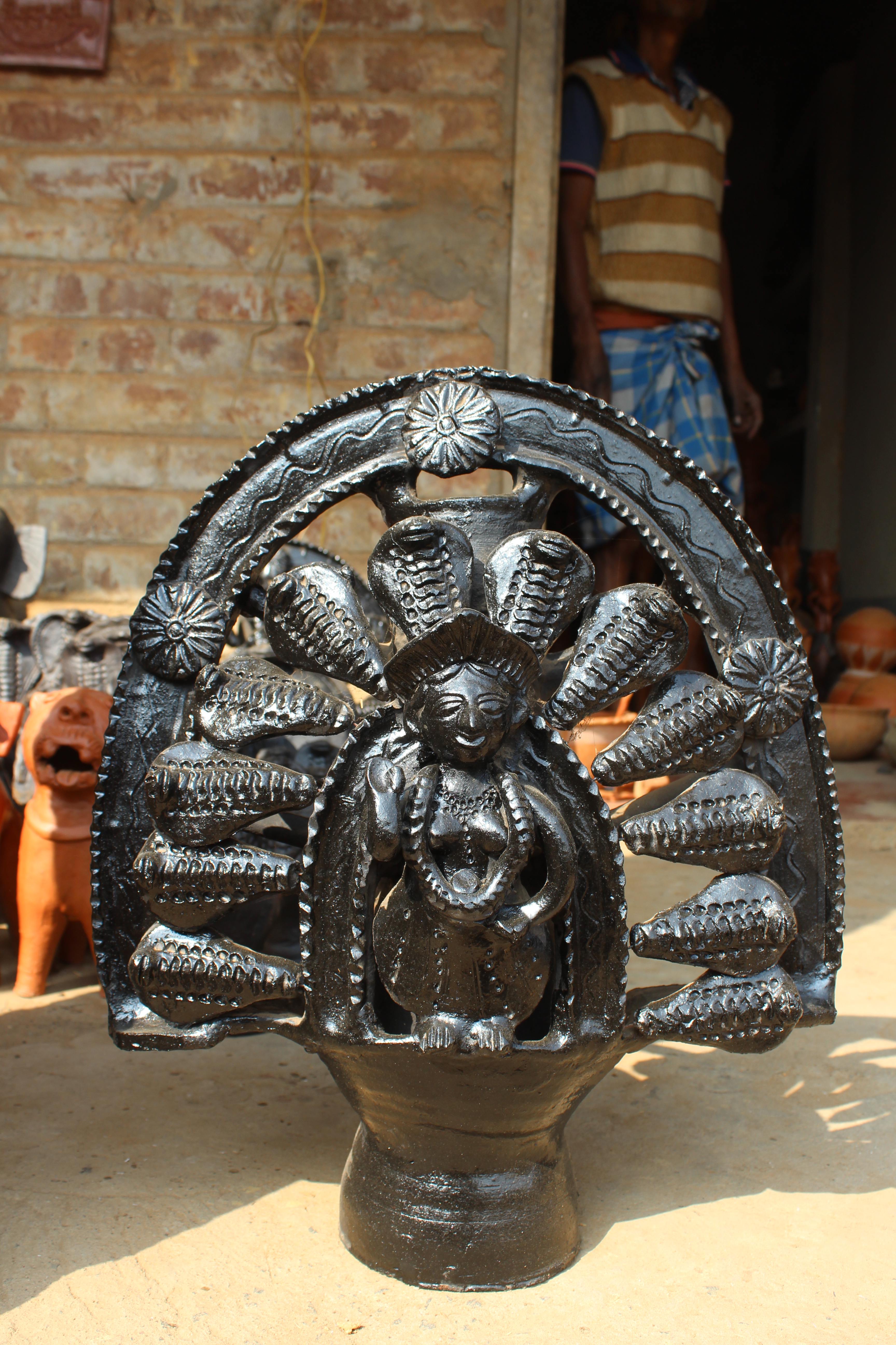 Terracotta art of Panchmura